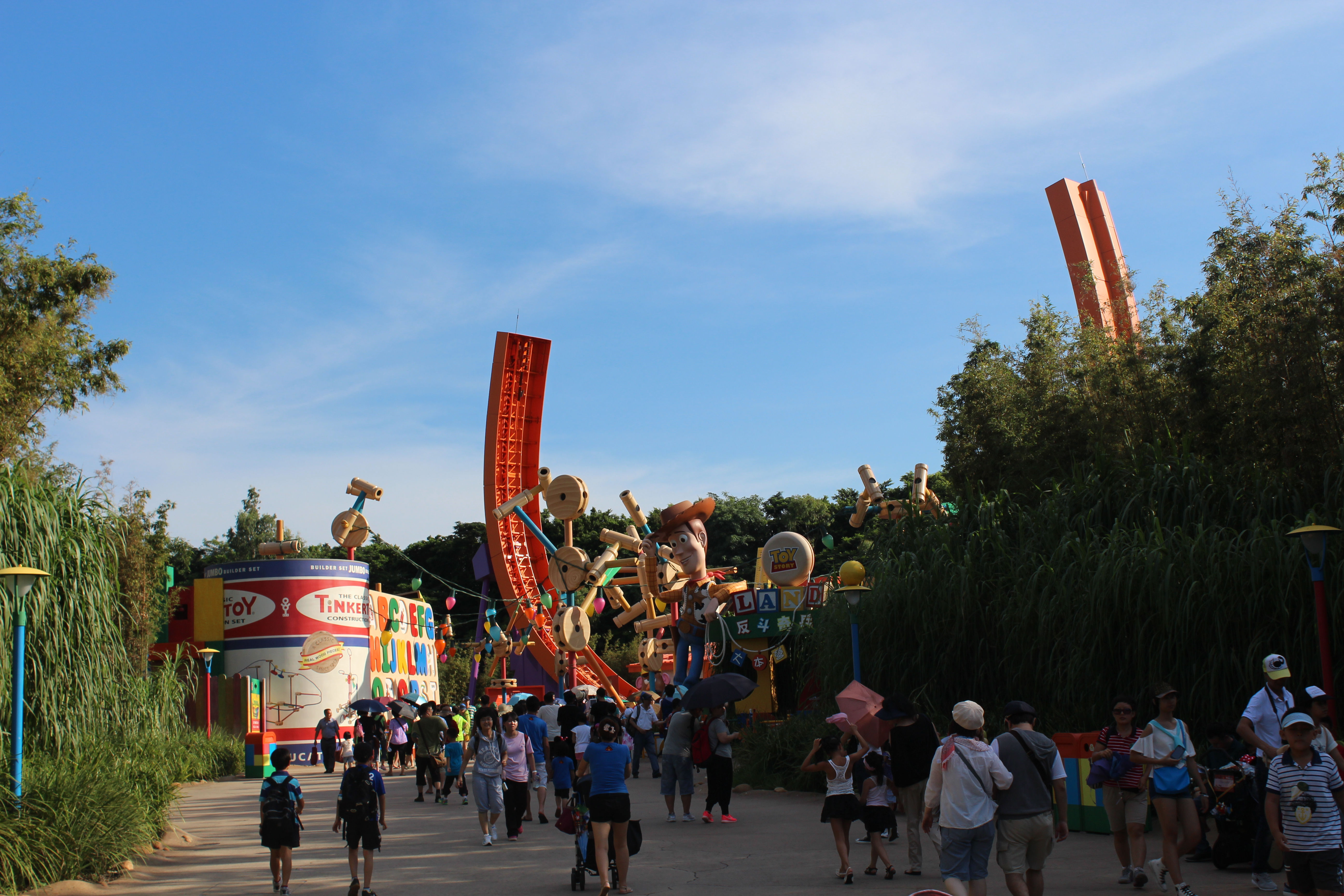 Toy Story Land at Hong Kong Disneyland, Hong Kong